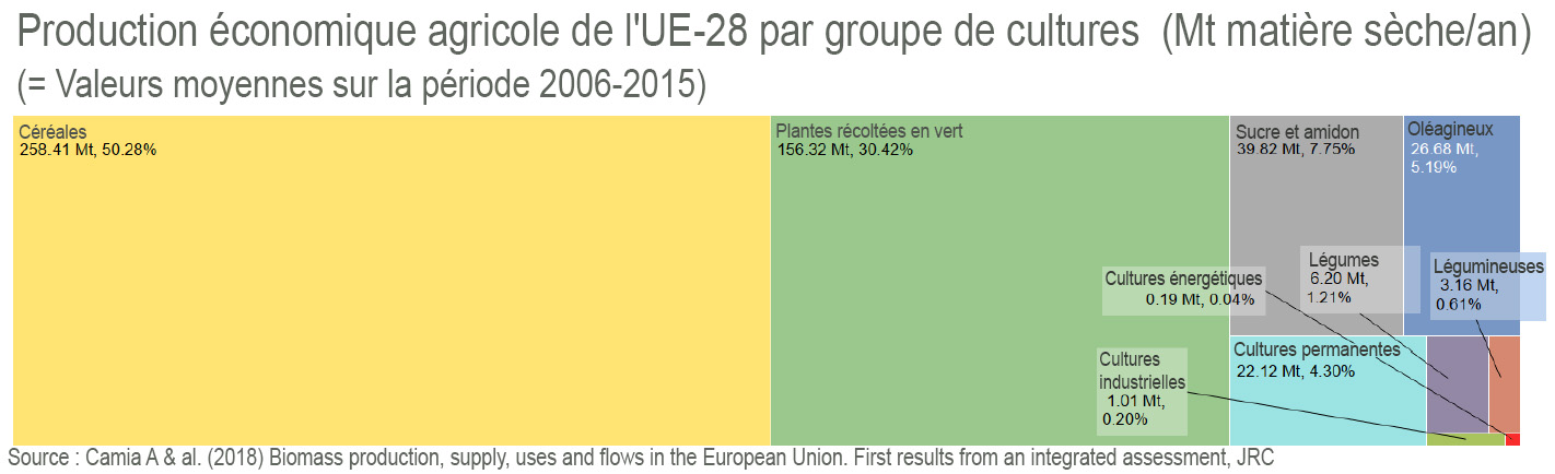 Breakdown of EU-28 economic production by crop group, expressed in Mt of dry matter per year. Averages values over the reference period 2006-2015